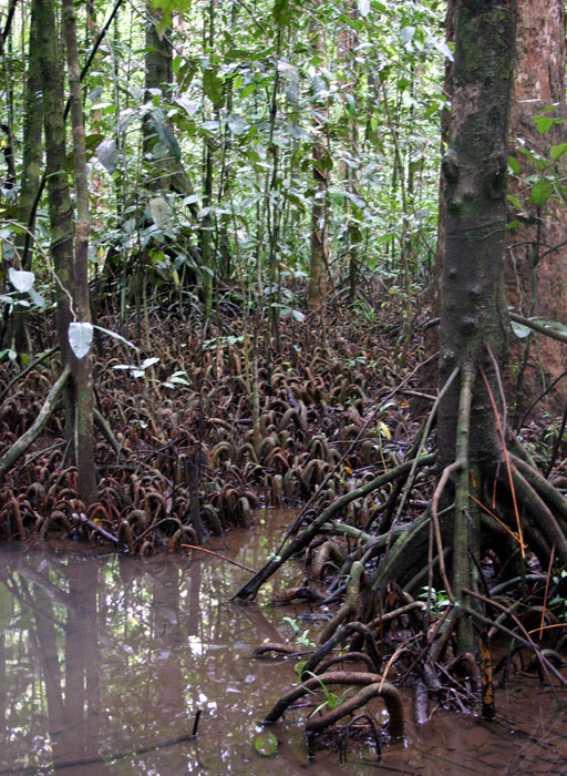 View of Myristica swamp